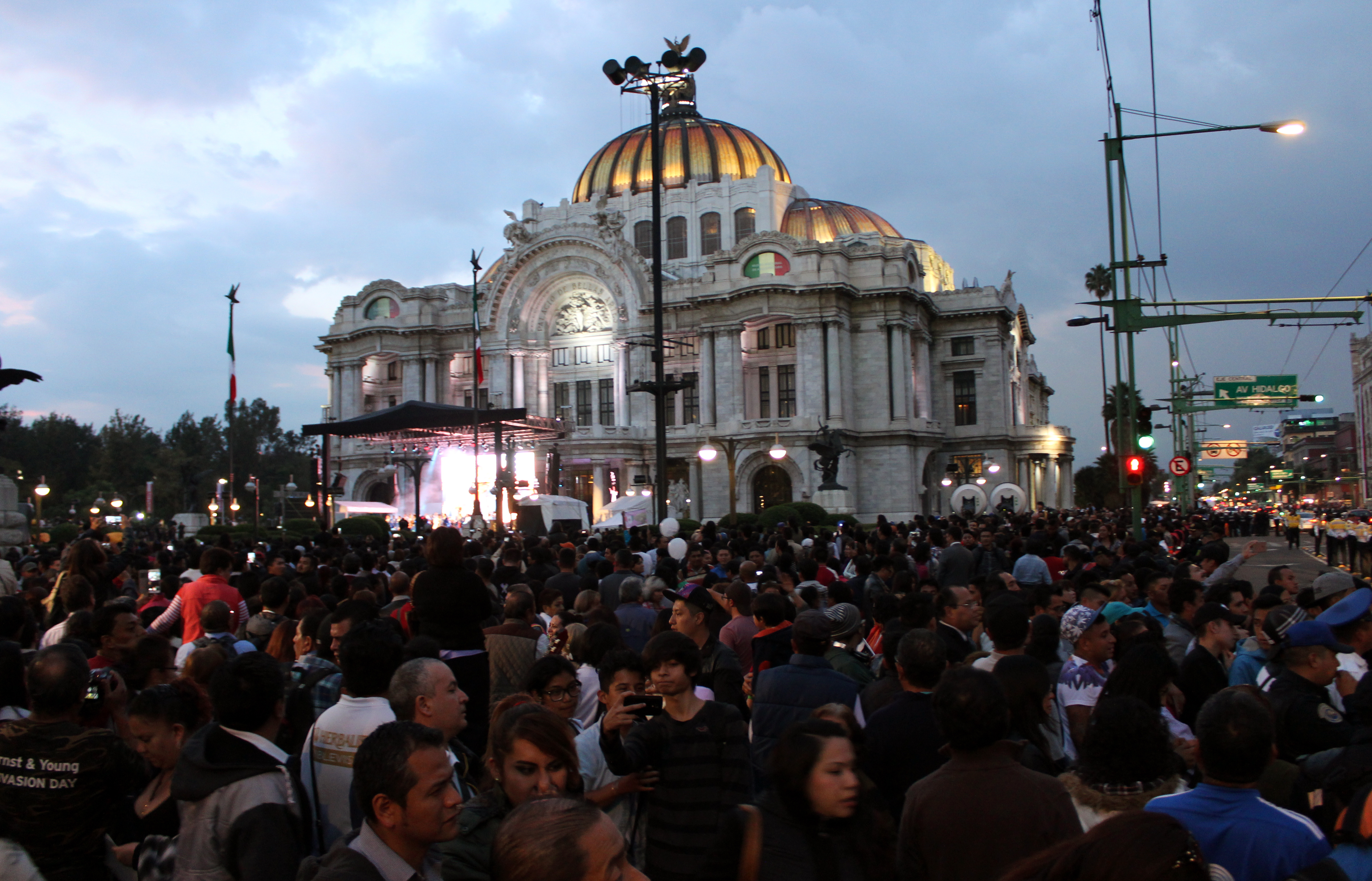 Funerals of Mexican singer and songwriter Juan Gabriel. Palacio de Bellas Artes, Mexico City Mexico.